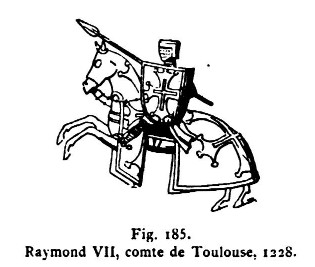 Raymond VII of Toulouse - 1228